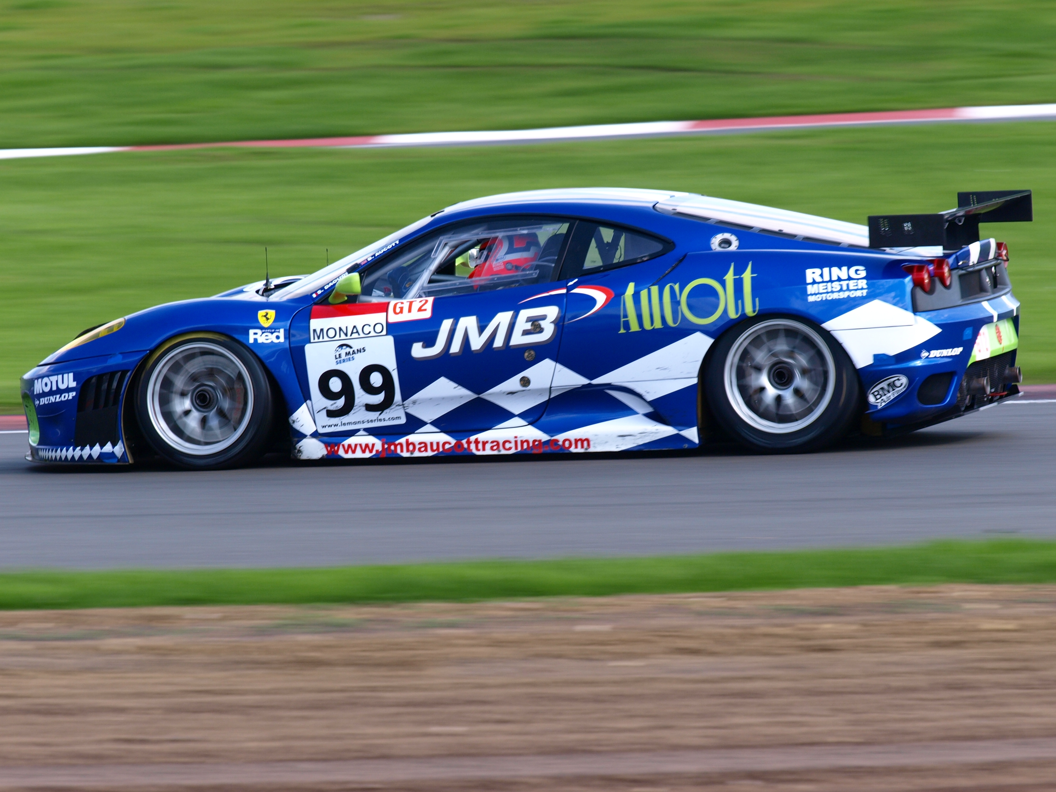 JMB Racing/Aucott Racing's Ferrari F430 GT2 in the 2008 1000km of Silverstone